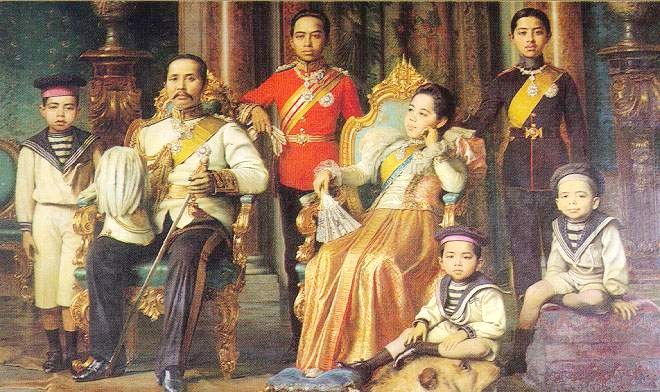 Painting of TM King Chulalongkorn and Queen Saovabha Bongsri, with their five sons (oil on canvas)